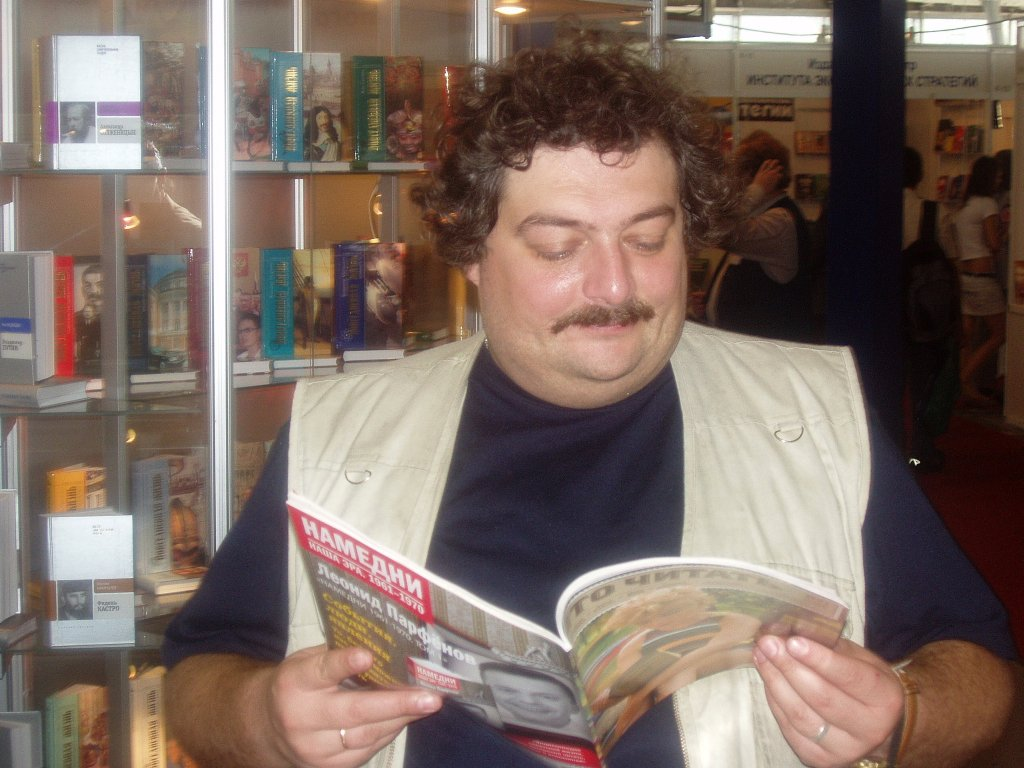 Dmitry Bykov